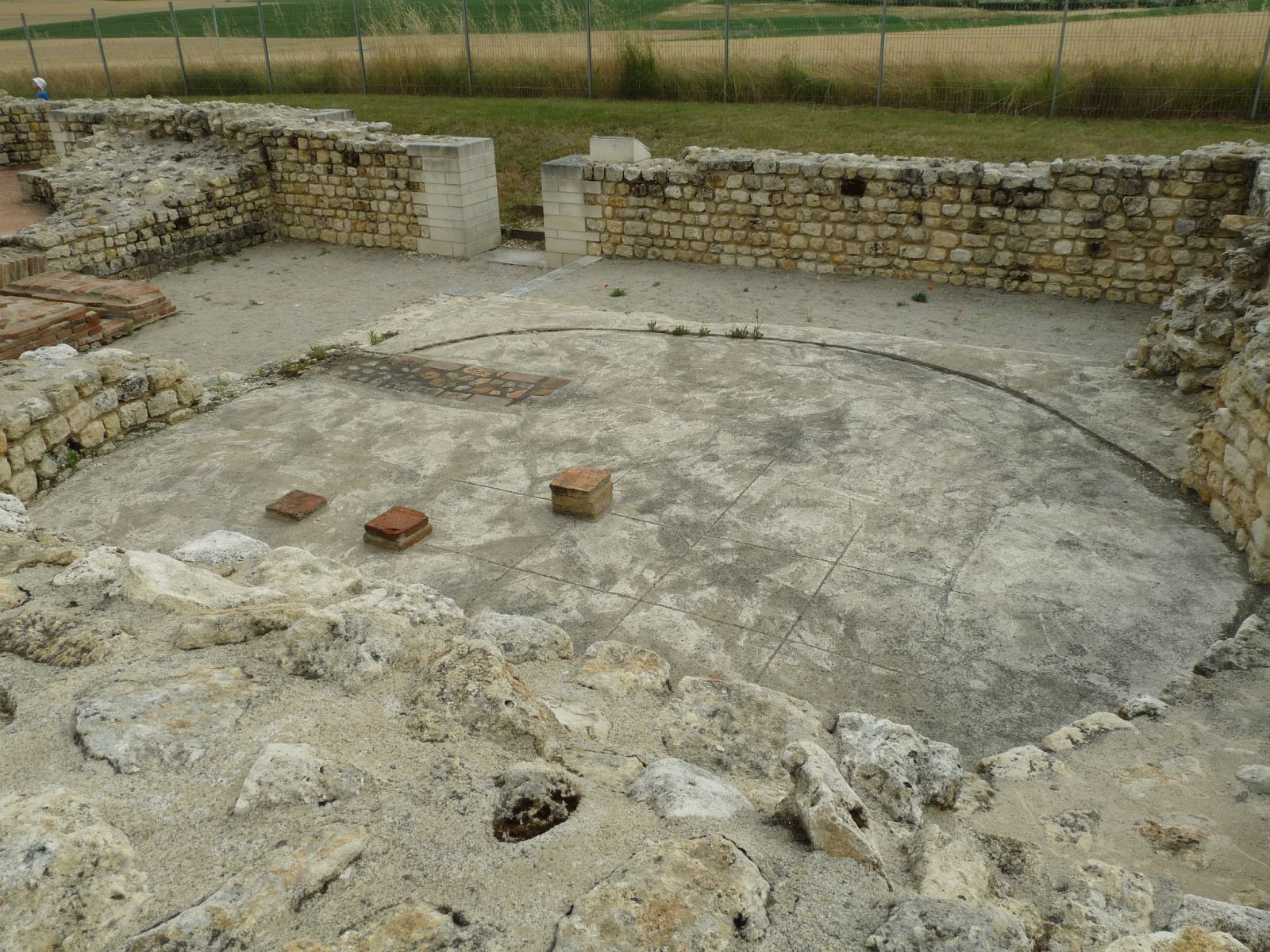 Ruins of a Gallo-roman city at Barzan (Novioregum?), Charente-Maritime, SW France. Thermae. Sudatorium (wet) or destrictarium (dry): hot room (60°C)